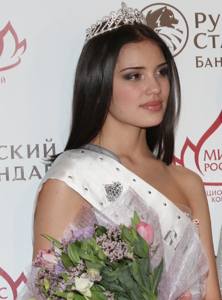 The winner of Miss Russia 2010